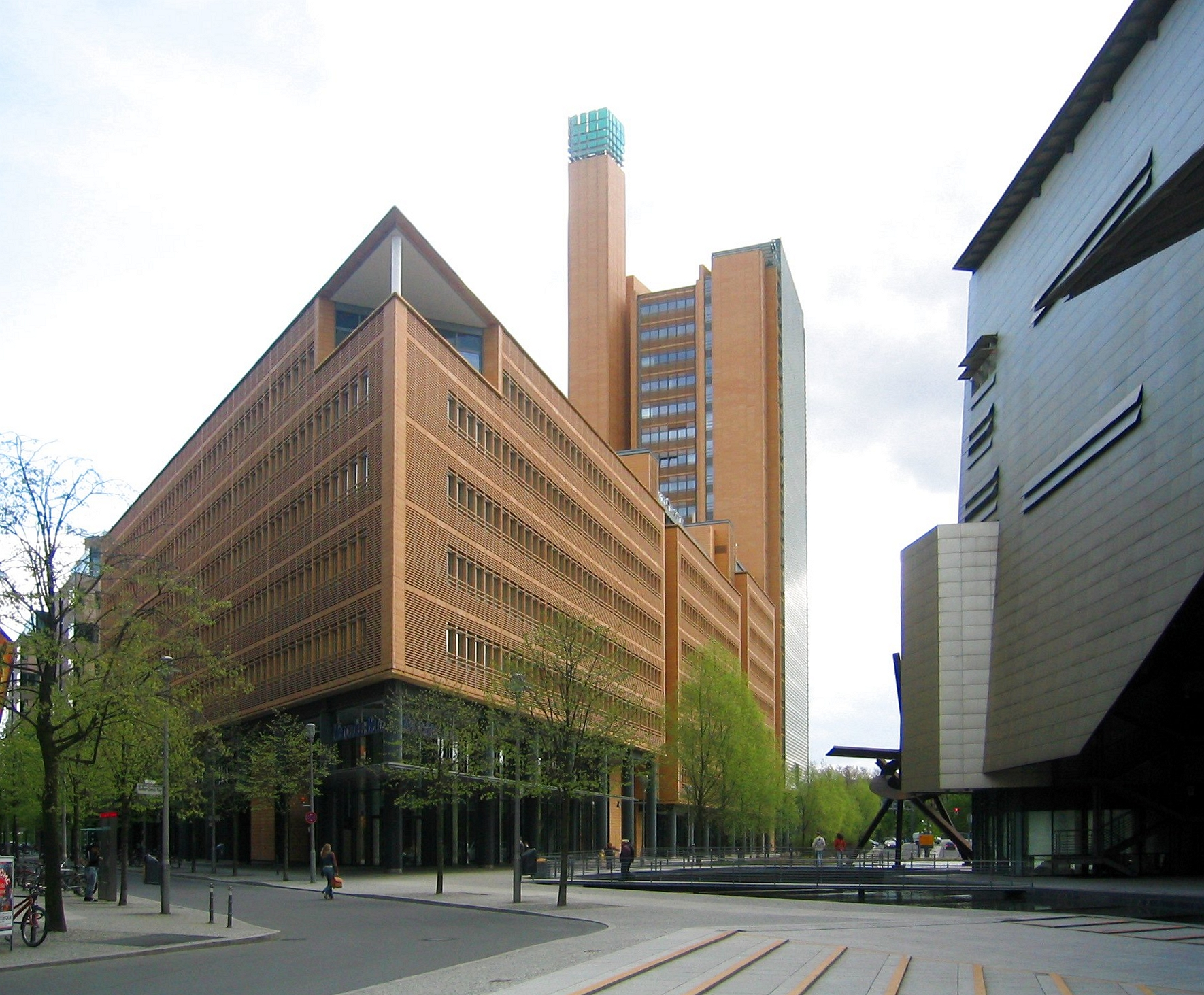 debis-Haus in Berlin